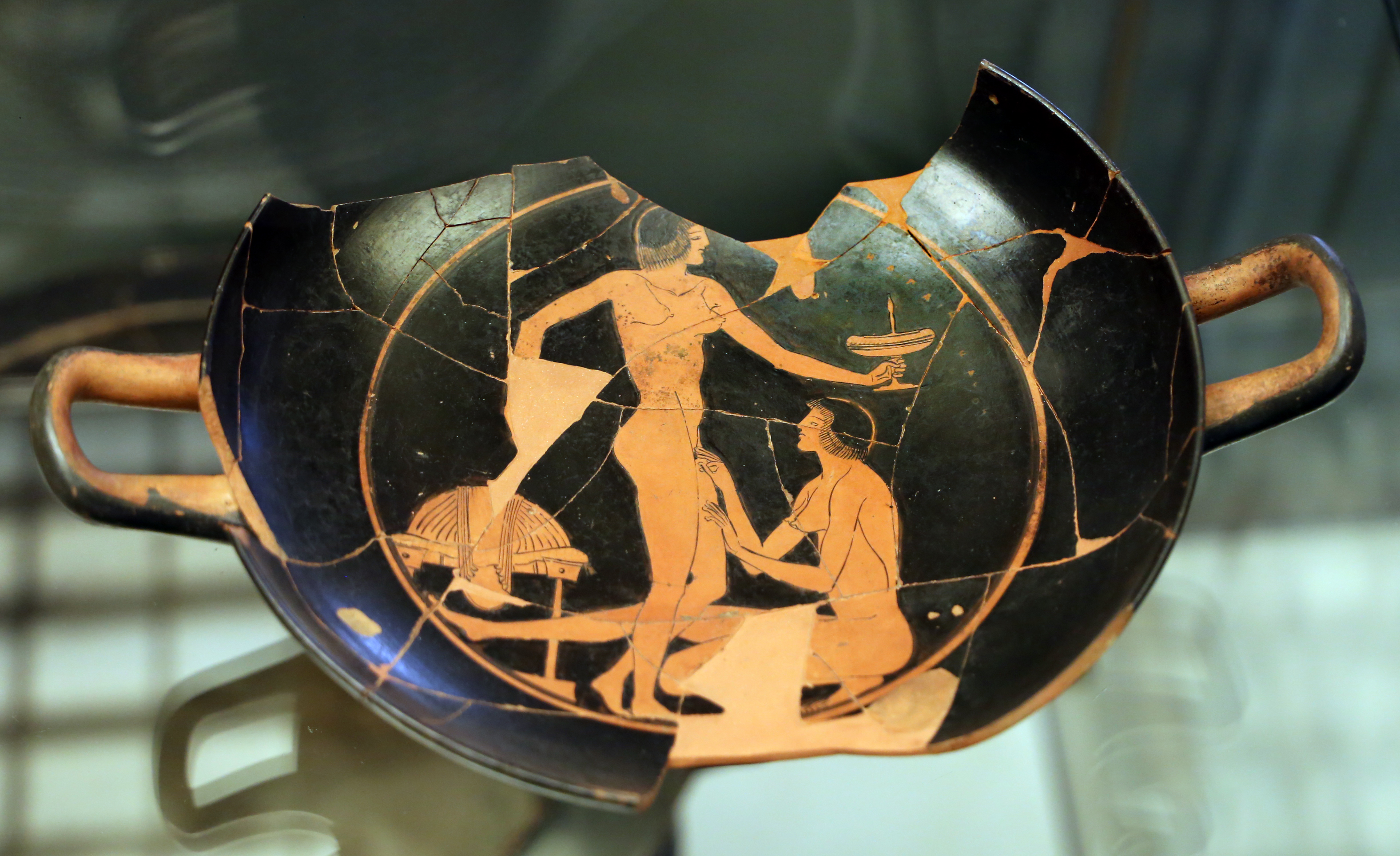 Ancient Greek red-figure pottery in the Museo archeologico nazionale (Tarquinia)